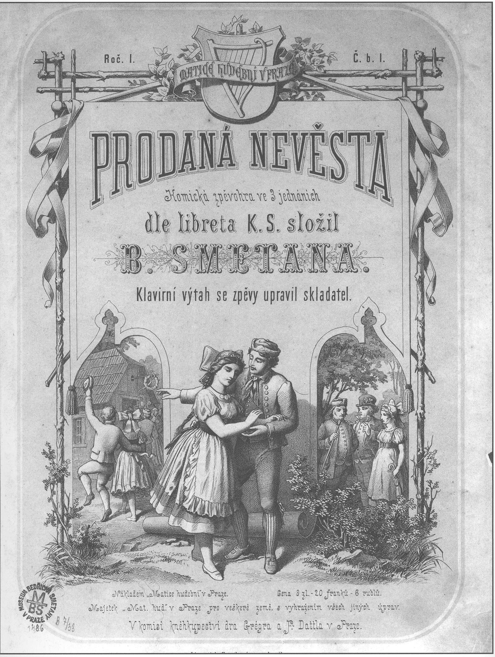 Smetana's Bartered Bride, title page of the first edition of the piano reduction (1872)